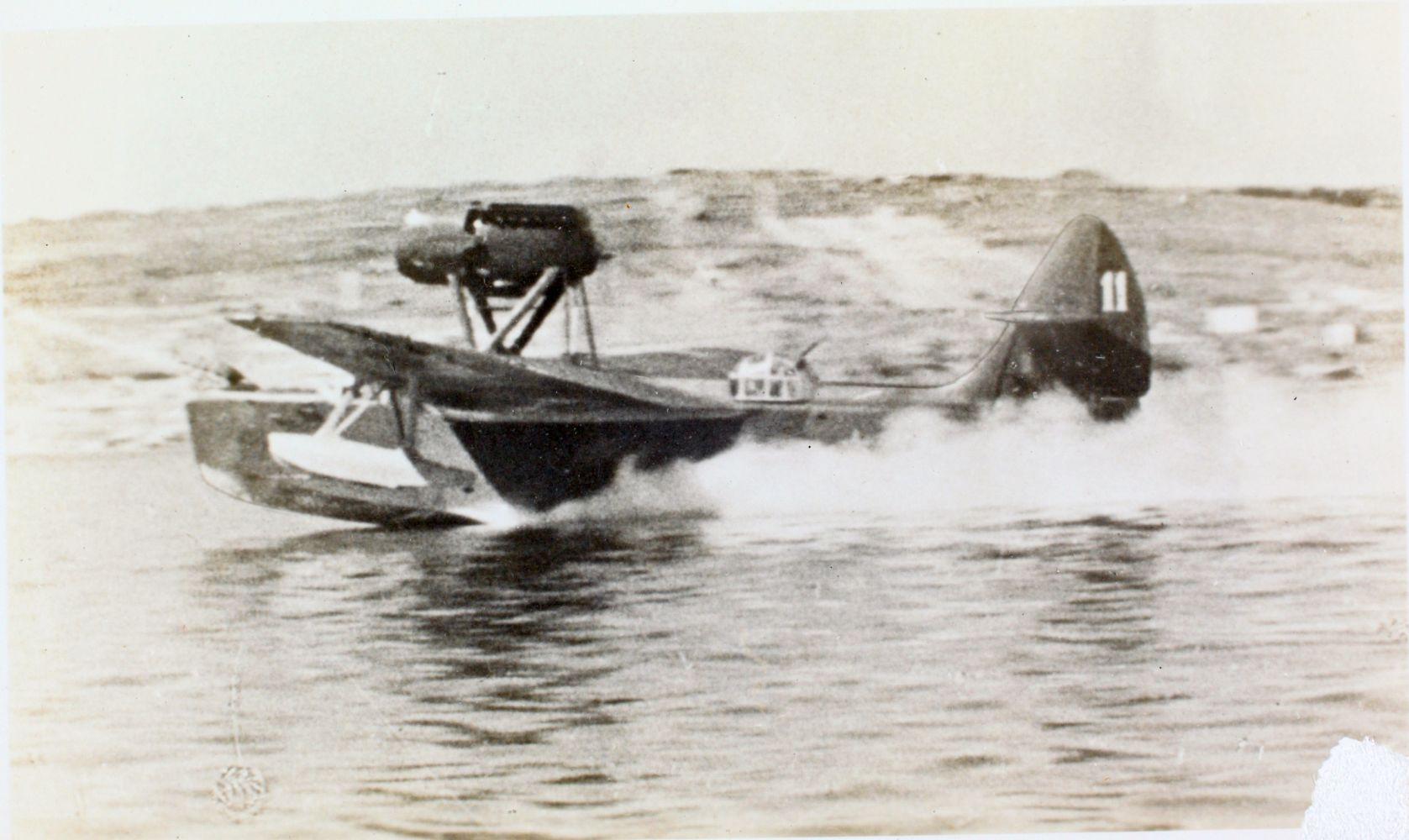 Catalog #: 15_002208 Title: Beriev MBR-2 Prototype Date: 1932 Collection: Charles M. Daniels Collection Photo Album Name: Soviet Aircraft Page #: 3 Tags: Soviet Aircraft, Charles Daniels, PUBLIC COMMONS.SOURCE INSTITUTION: San Diego Air and Space Museum Archive